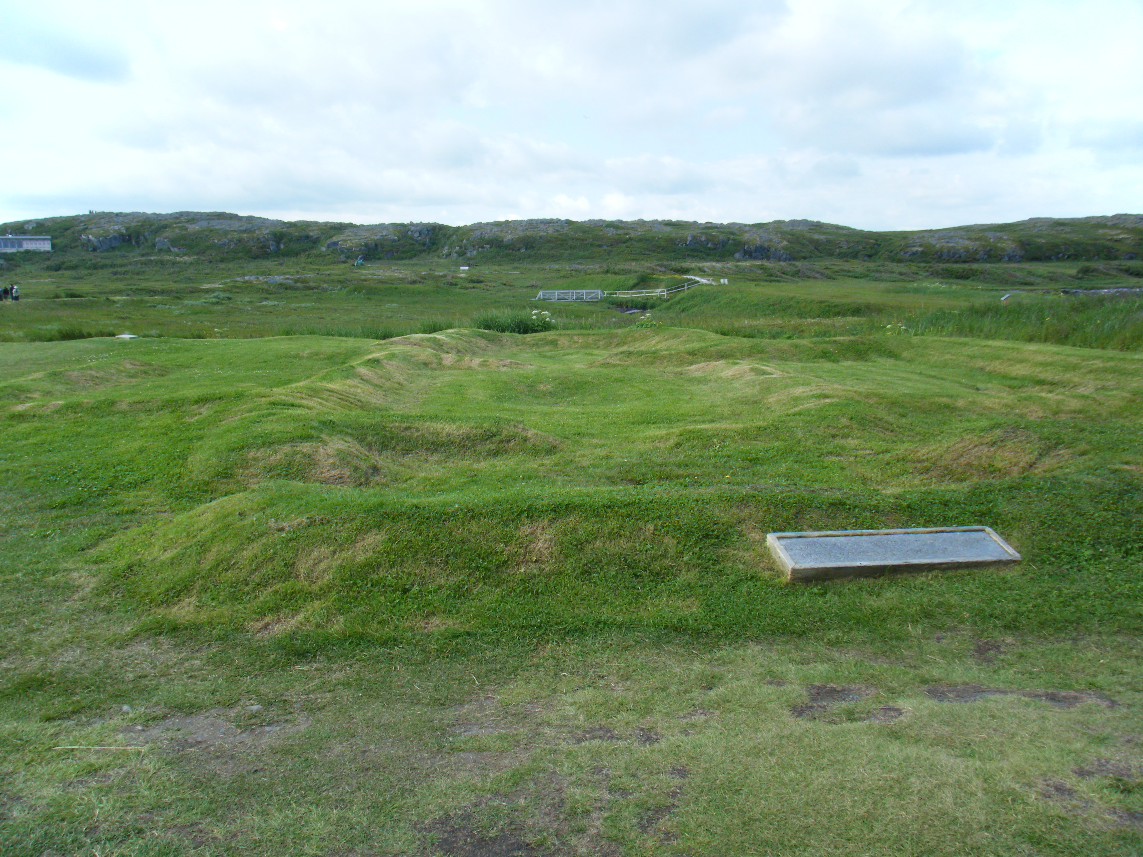 Photograph of the largest original Viking building in L'Anse aux Meadows, Newfoundland. The entryway is in front, the sleeping quarters in the center. To the left a boat repair area, and to the right storage. The other excavated buildings are to the left of this shot.